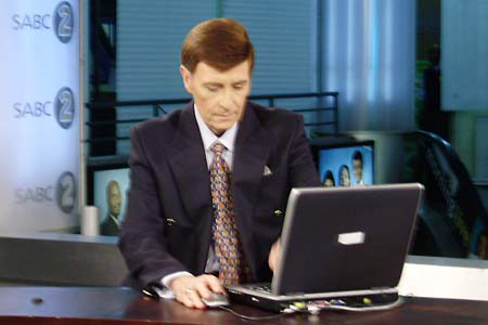 Being gay: punishment or blessing? – Documentary film on the life and work of theologian Dr. Hendrik Pretorius on SABC Network.